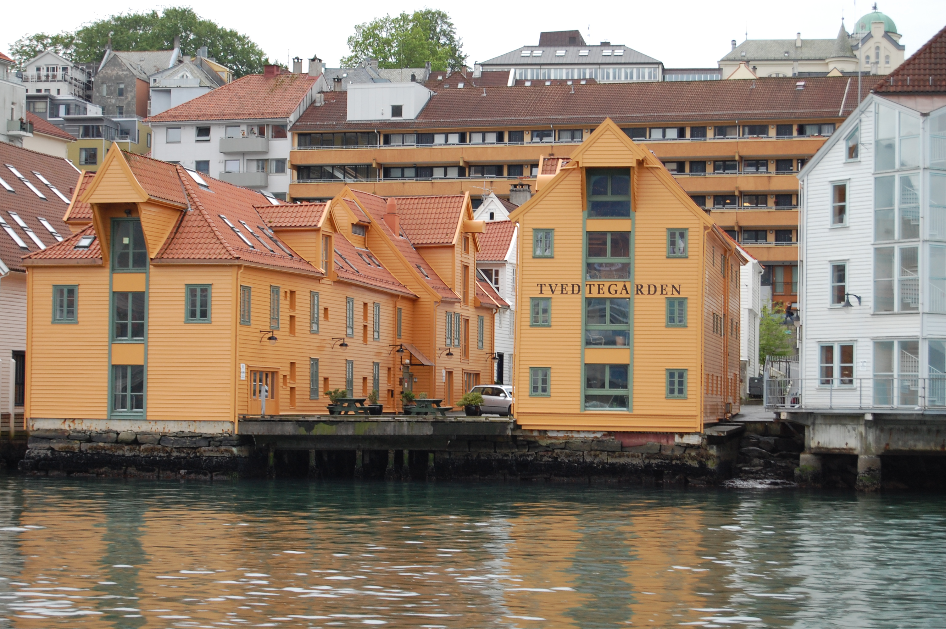 Tvedtegården and Hellandsgården, Bergen, Norway